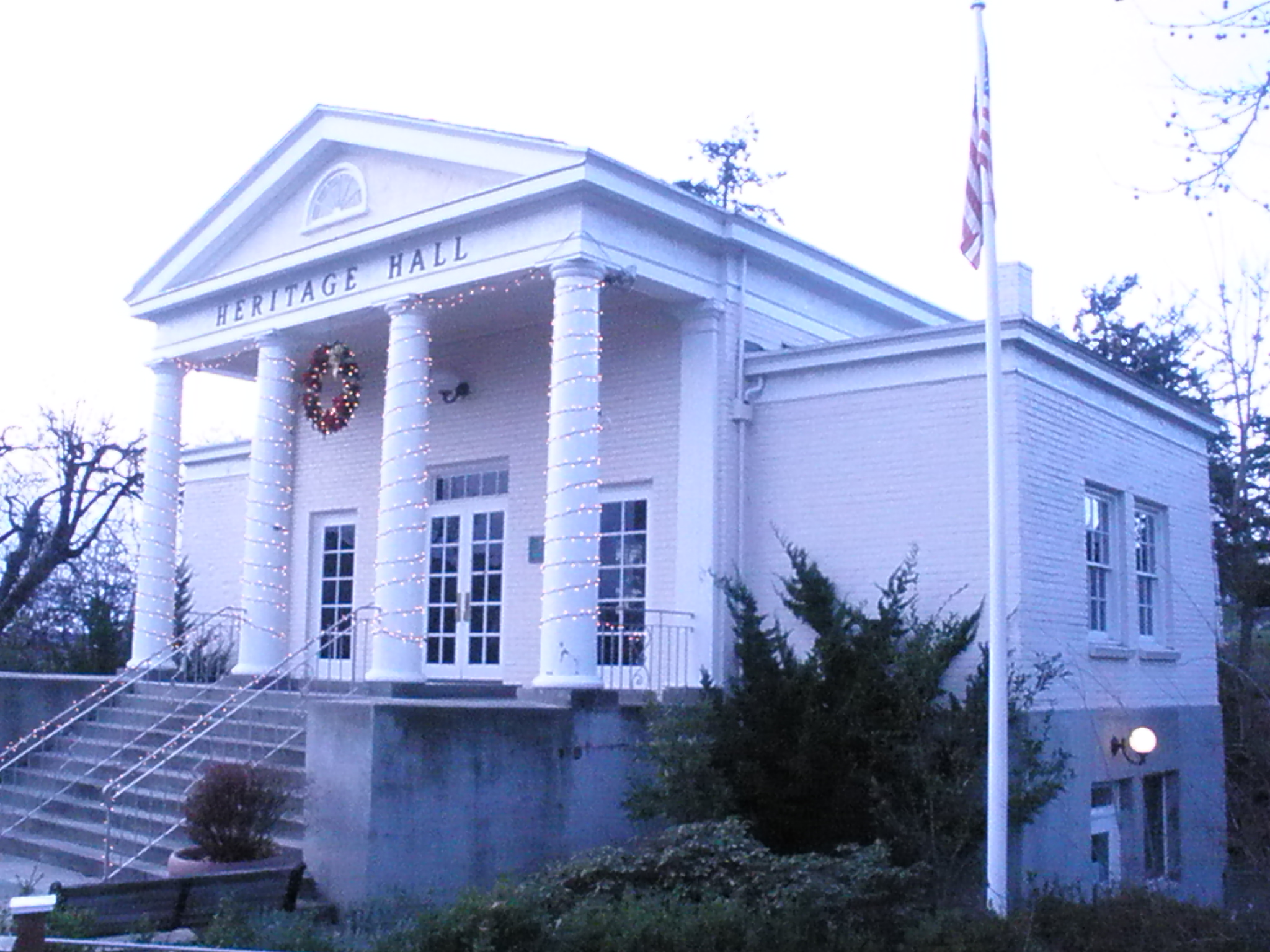 Heritage Hall, Kirkland, Washington USA -- city landmark